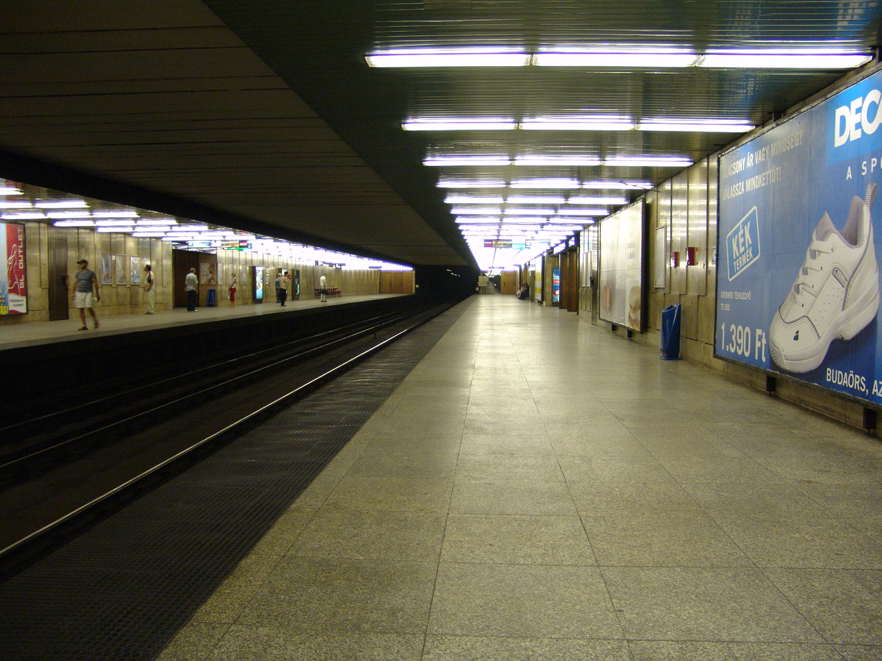 Line 3 (Budapest Metro), Ecseri út station